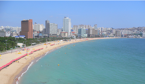 This is the Haeundae Beach in Busan, South Korea.